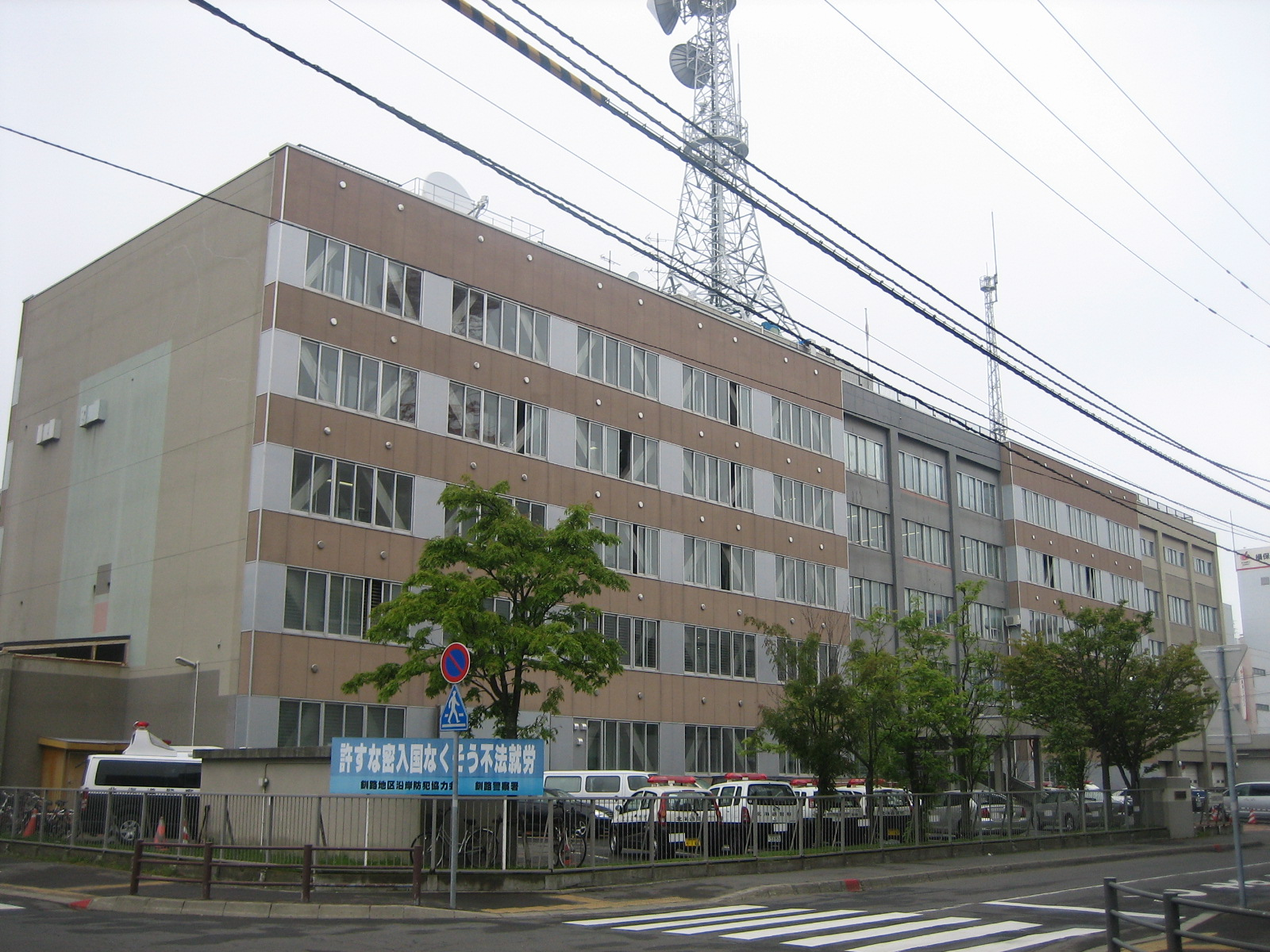 Kushiro Police Station